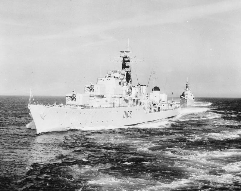 Daring class destroyer, HMS Decoy, c1953 (IWM HU129793)